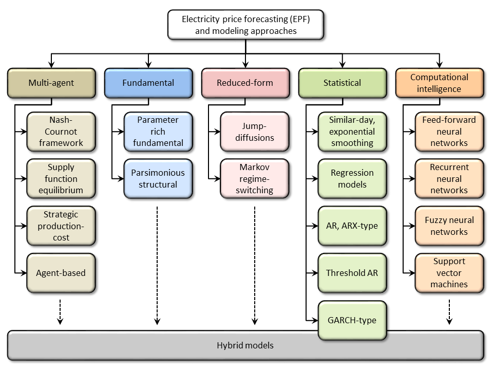 EPF taxonomy